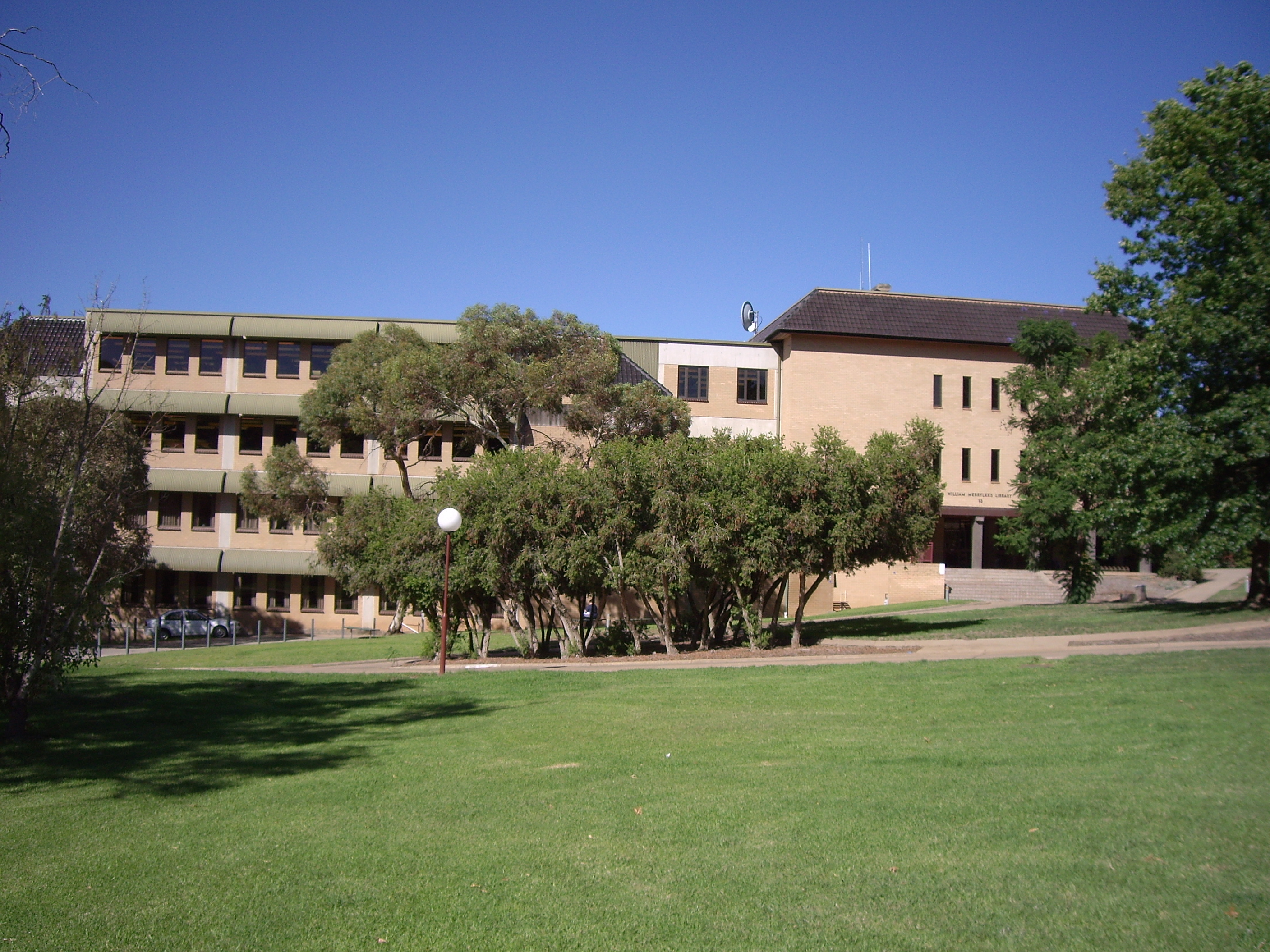 CSU William Merrylees Library